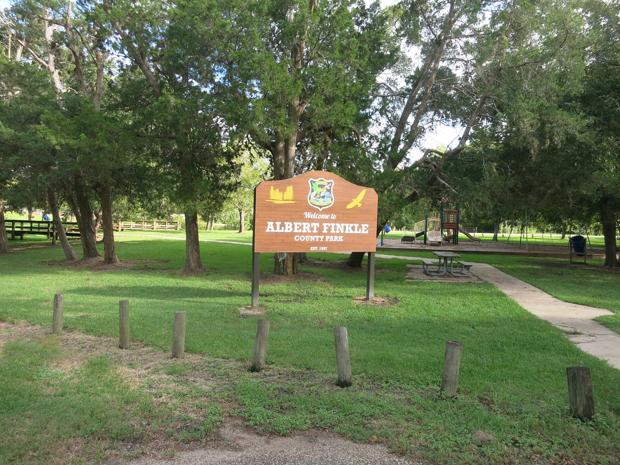 Photo shows Albert Finkle County Park at 8102 Calhoun Street, Liverpool, TX 77577. View is toward the south.